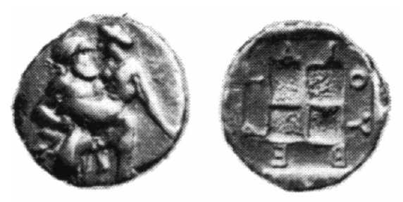 Coin of Bergaios, a local king in the Pangaian District Silver drachma depicting satyrus carrying a nymph. Reverse inscription ΒΕΡΓΑΙΟΥ round quadripartite square.